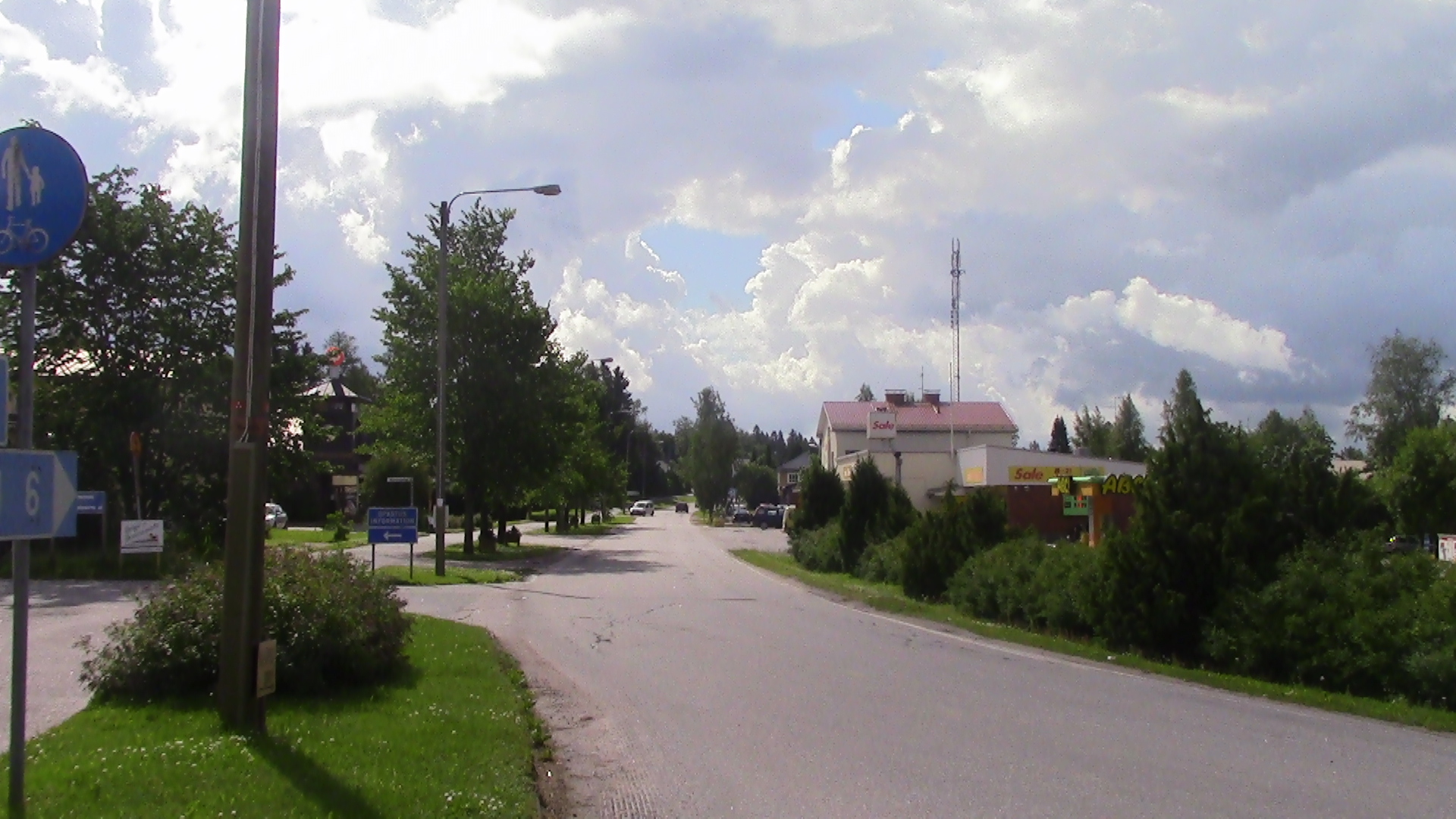 The village of Yläne seen from the crossing of Haaviontie, Haverintie and Keskustie.